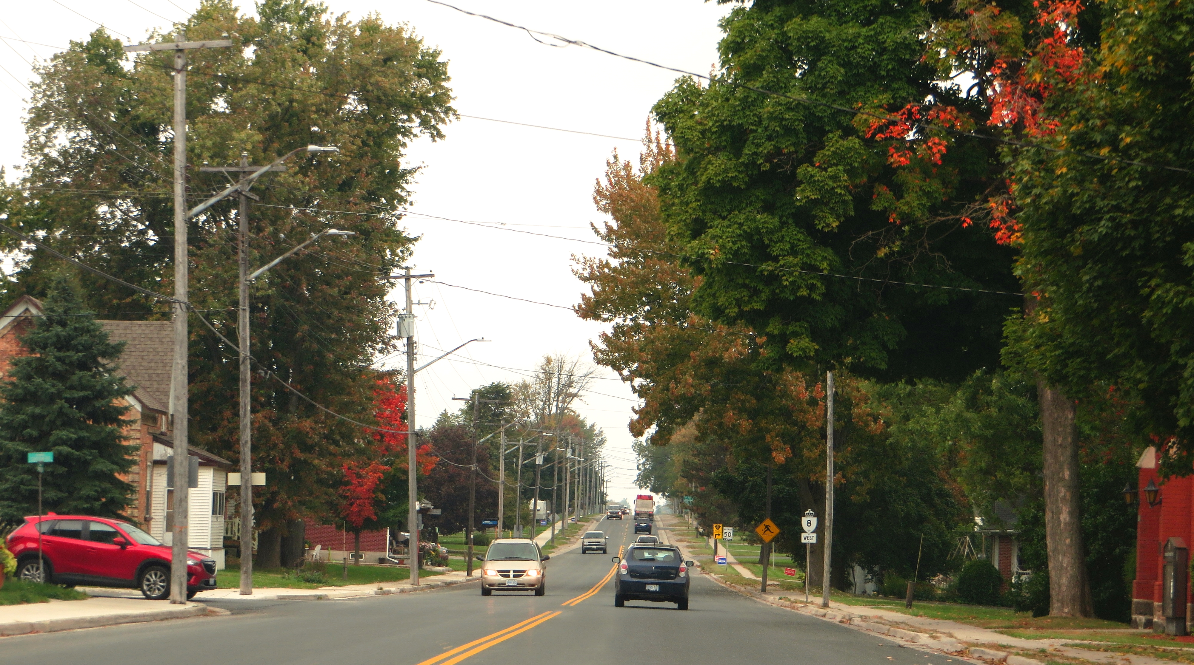 The Township of Perth South is a lower-tier municipality in southwestern Ontario, Canada. It is located in the County of Perth at the confluence of the River Thames and the Avon River. The Township was created on January 1, 1998 as a result of an amalgamation of the former Township of Blanshard and the former Township of Downie. Canada's ninth Prime Minister, Arthur Meighen, was born in Anderson, a community in Perth South. The township encompasses the Villages of Sebringville and Kirkton. There are smaller settlement areas knows as Hamlets that include: Avonbank, Avonton, Conroy, Harmony, Prospect Hill, Rannoch, St. Pauls, Whalen Corners and Woodham. The Township is composed predominantly of a mix of rural agricultural land and hamlet residential uses with a total land area of 39,202 hectares. Agricultural uses represent one of the Township's most significant economic and cultural assets. Perth South is served by the Stratford & District Chamber of Commerce whose mandate is to maintain and improve trade and commerce and to provide the economic, commercial, tourist, agricultural and environmental welfare of the region. Perth South is also a part of the Southwest Economic Alliance: an organization covering much of southwestern Ontario and designed to create partnerships between local government, educational institutions, the broader public sector, and the private sector. According to the 2011 National Household Survey, the largest economic sectors by number employed are manufacturing (430 workers); agriculture, forestry, fishing and hunting (395 workers); construction (250 workers) and health care and social assistance (180 workers). Other industries employing 100 or more workers include wholesale trade; retail trade; finance and insurance; educational services; and health care and social assistance.